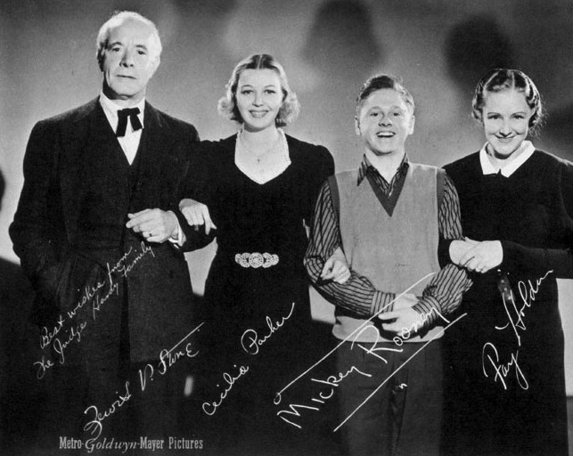 Photo of the Hardy family from the film Judge Hardy's Children. From left: Lewis Stone (Judge Hardy), Fay Holden (Mrs. Hardy), Mickey Rooney (Andy Hardy) and Cecelia Parker (Marian Hardy). The photo was used as a premium by the appliance store whose name is on the back.